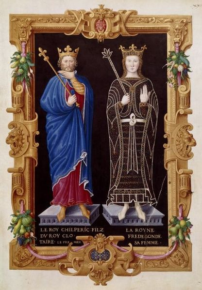 The king Chilperic, son of Chlothar the first and the queen Fredegonde, his wife by Jean Du tillet.